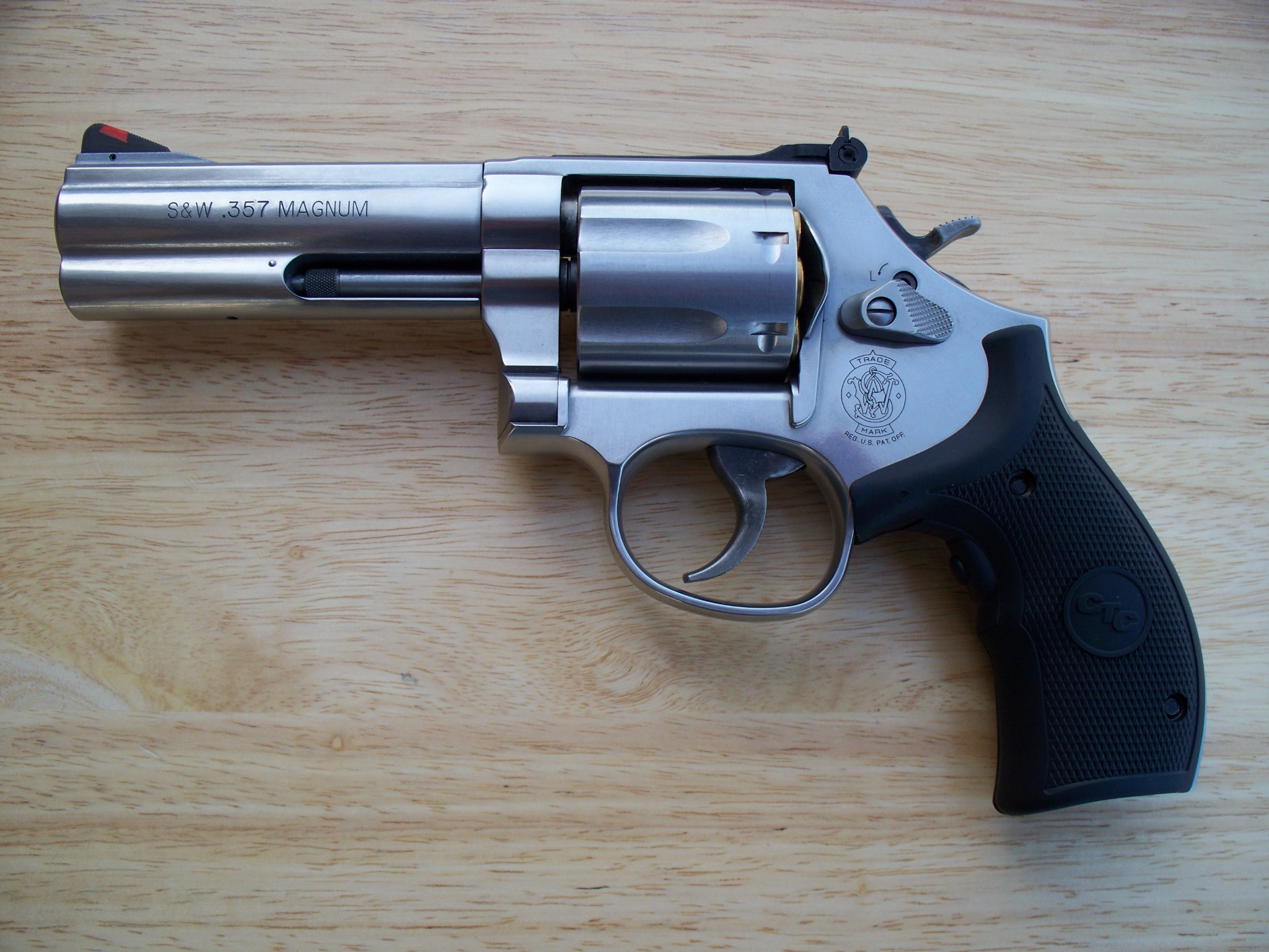 Smith & Wesson, Model 686 Plus Medium L Frame, Caliber .357 Magnum, Action: Single/Double Action, Capacity 7 rounds. Equipped with Crimson Trace laser grip.